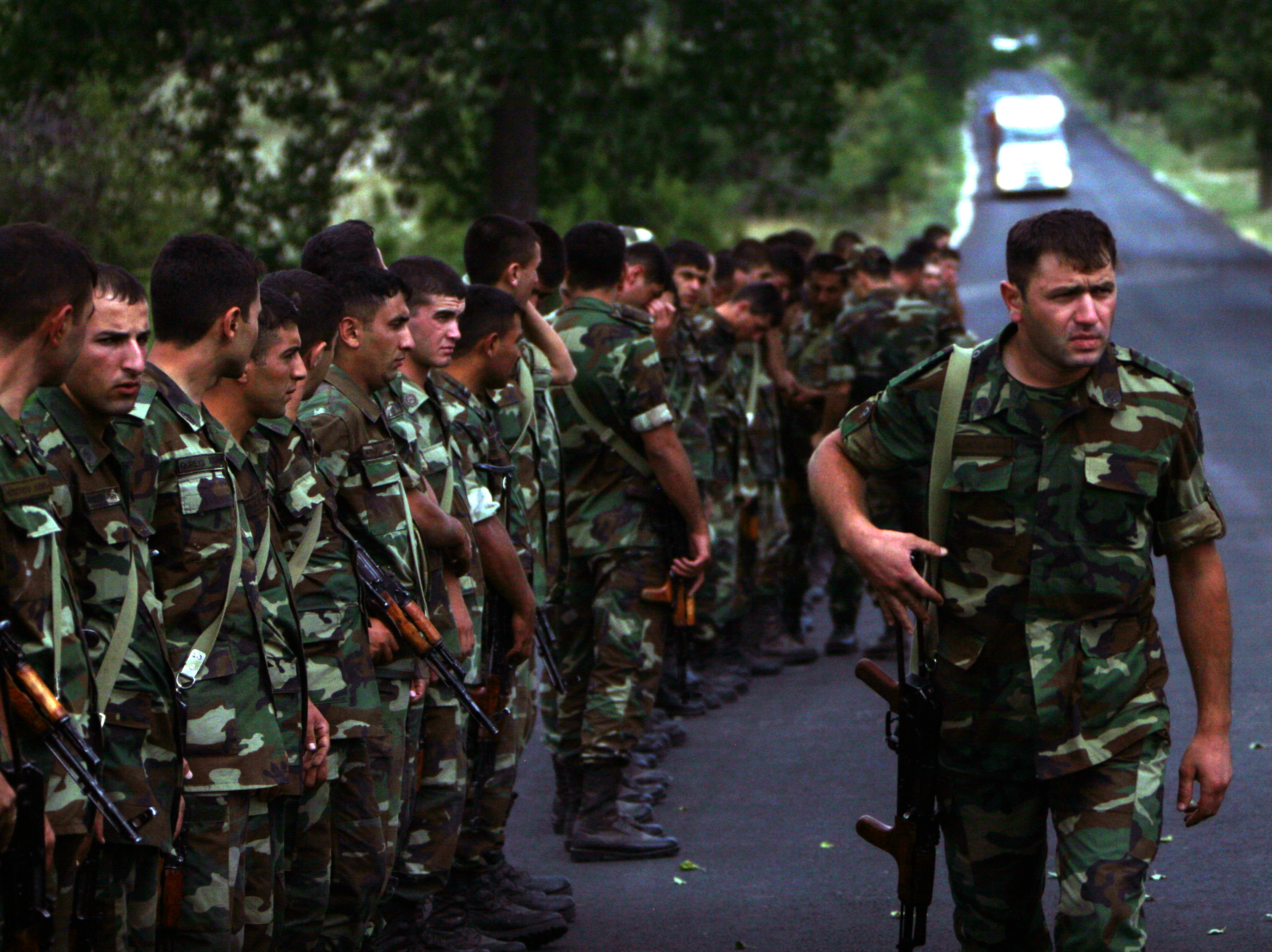 BABADAG TRAINING AREA, Romania – Soldiers from the Azerbaijani Operational Capabilities and Concepts Battalion wait on the combat-marksmanship range in Babadag Training Area. Marines from Black Sea Rotational Force 11 trained with Azerbaijan’s Operational Capabilities and Concepts Battalion in close-quarters, combat marksmanship to build proficiency and develop interoperability in counterinsurgency and peacekeeping operations in a combined-forces environment. The Azerbaijani troops mark the fourth cycle of partner nations from the Black Sea, Balkan and Caucasus regions to train in the Babadag Training Area since April. Unit: U.S. Marine Corps Forces, Europe and Africa DVIDS Tags: counterinsurgency; USMC; Reserves; interoperability; COIN; United States Marine Corps; terrorism; Marine Corps; Marines; Marine Forces Europe; BSRF; Marine Forces Reserve; Azerbaijan; Babadag training area; partner nations; overseas contingency operations; Black Sea Rotational Force 11; joint-forces; PKO; BSRF-11; Peace keeping operations; combined-forces